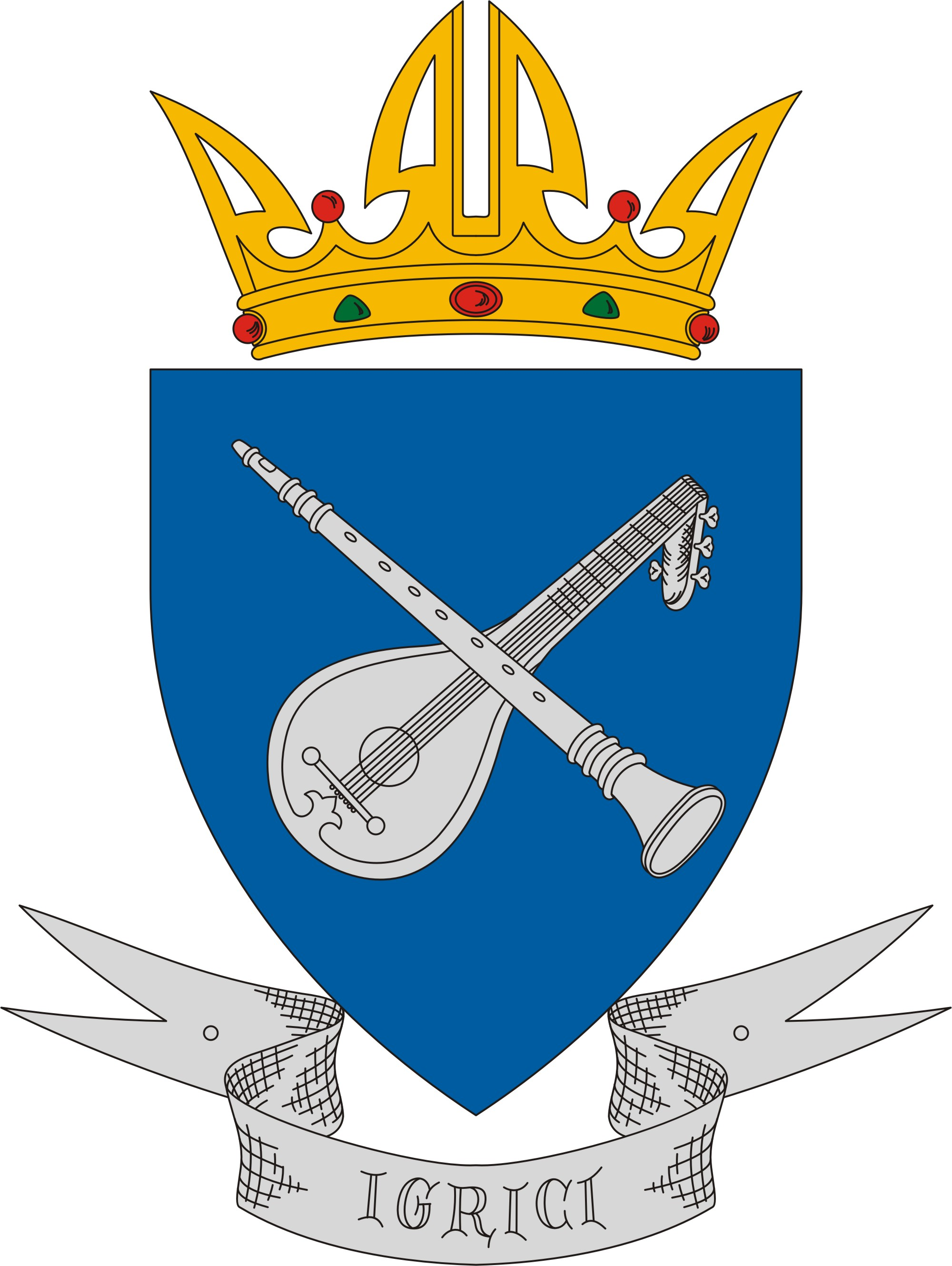 Coat of arms of Igrici, Hungary